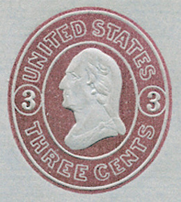 Indicium of 1861 U.S. letter sheet - George Washington depicted in pink on blue paper